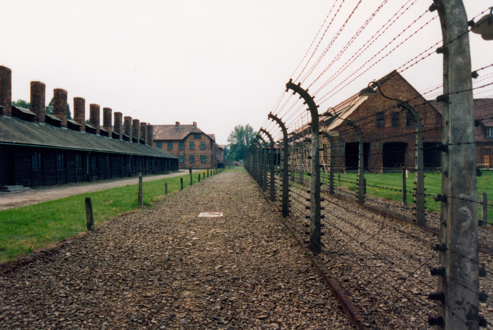 View of Auschwitz I concentration camp located near the town of Oświęcim, Poland. In the left is the prison kitchen.